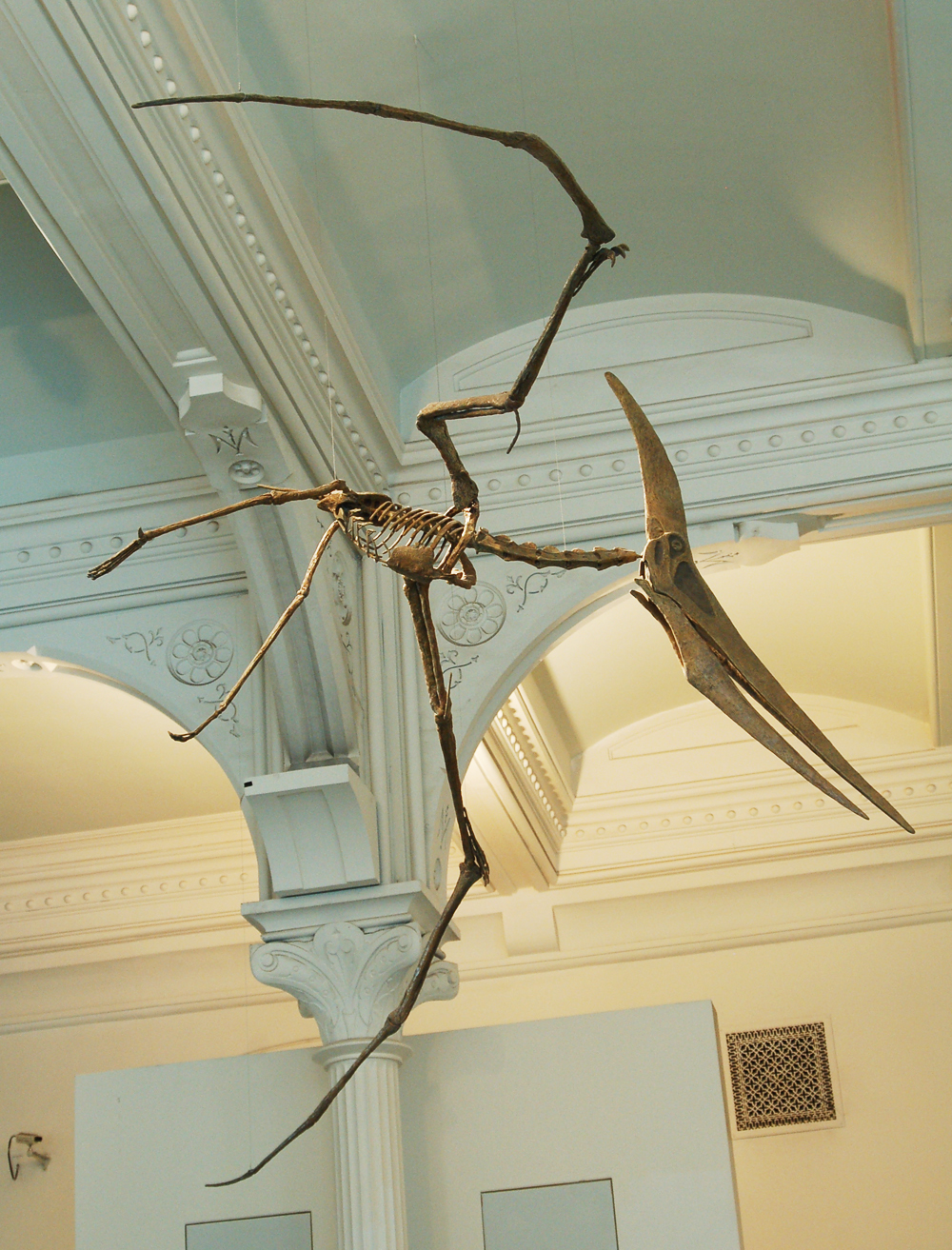 Mounted composite cast of Pteranodon longiceps (=P. ingens) at the American Museum of Natural History, New York. Photo credit Matt Martyniuk